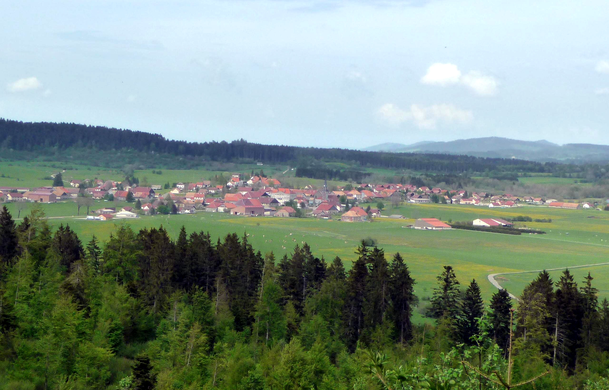 Arc sous Cicon village, view from the "Pérouses"